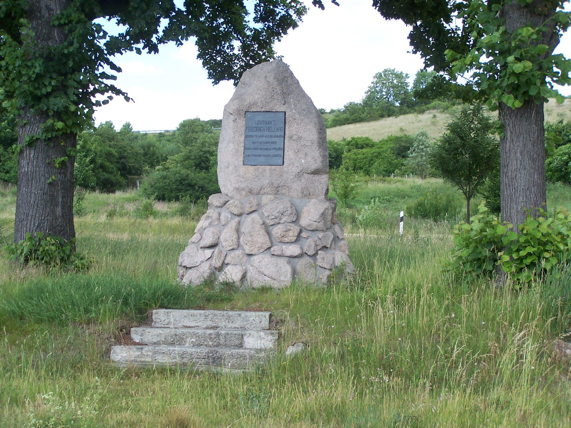 The Hellwig-Memorial rembers at a episode of the Napoleon Wars in october 1808.